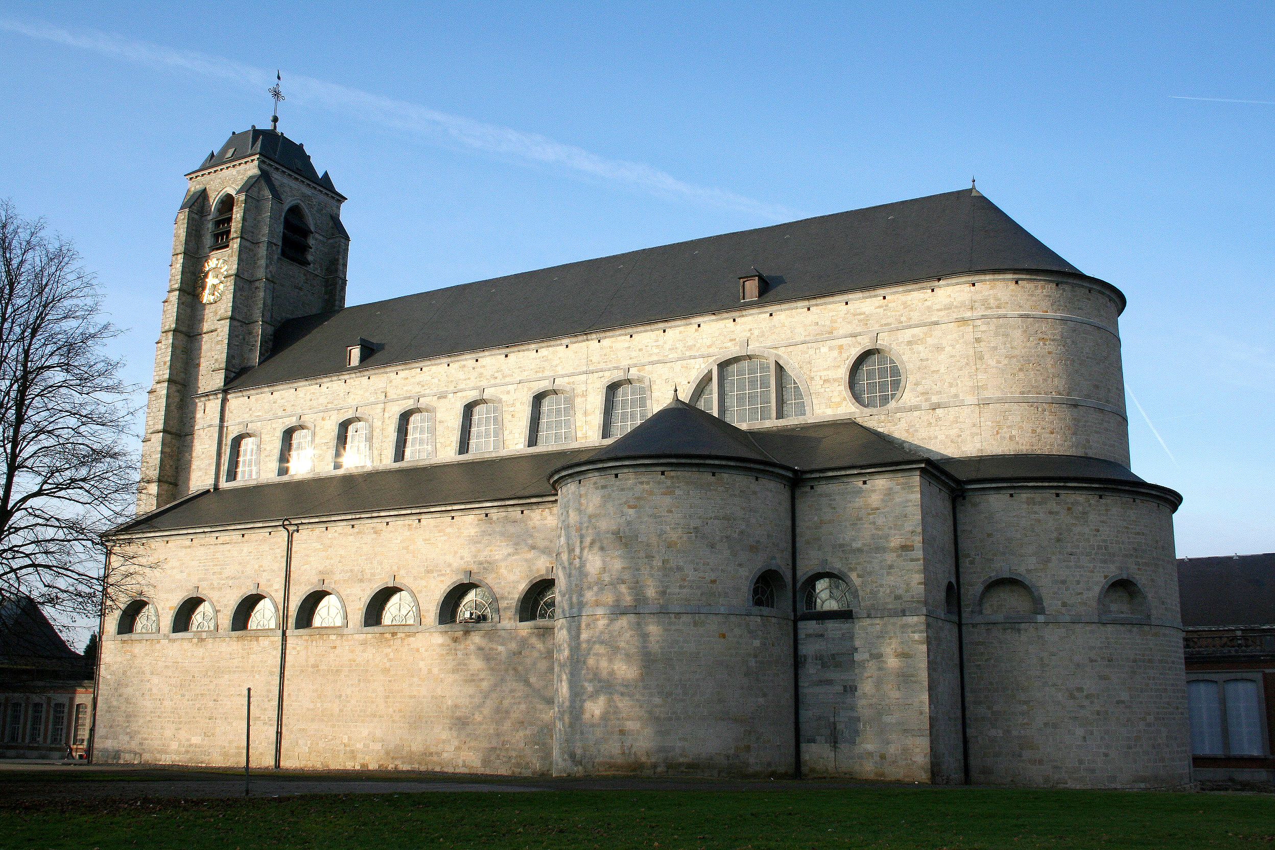 Vellereille-les-Brayeux (Belgium), gothic tower and neo-classical nave (1776)of the Bonne Espérance abbey basilica.